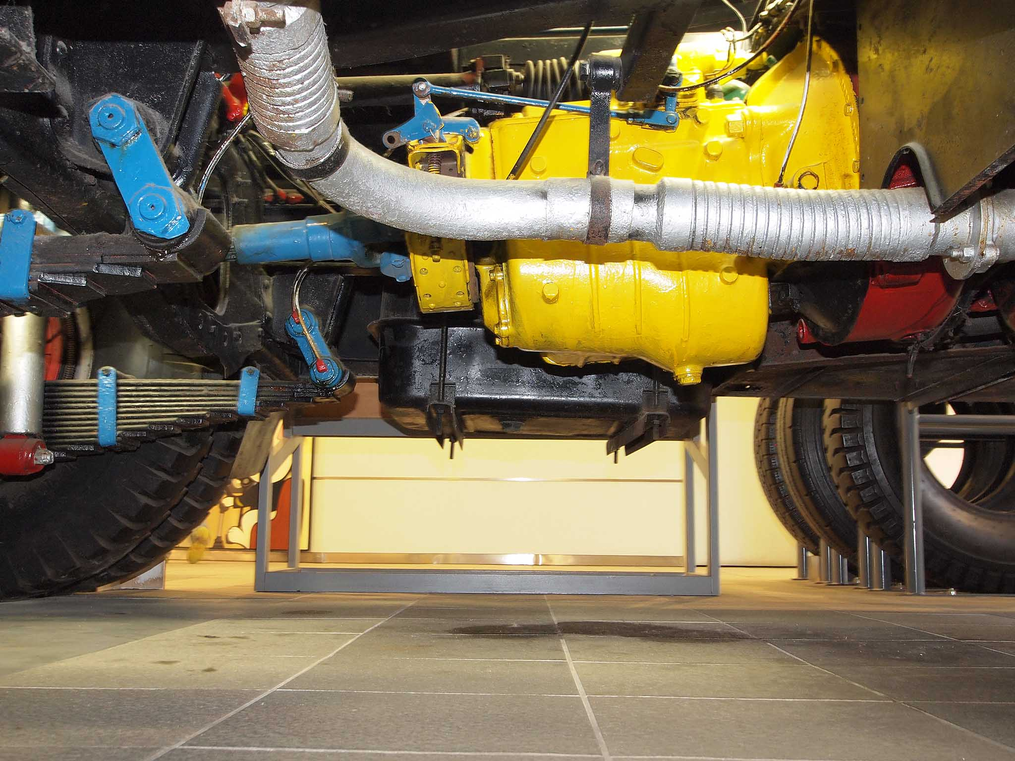 Gearbox and parking brake of Hino RB10, painted yellow. Tokyu Transportation Museum archive